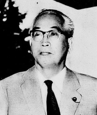 Mitsujiro Ishii